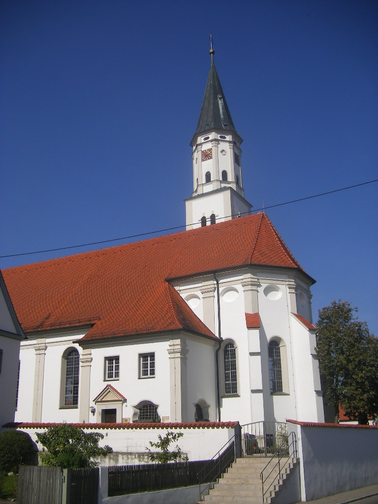 Blindheim (Blenheim), Parish Church of St Martin from south-east.